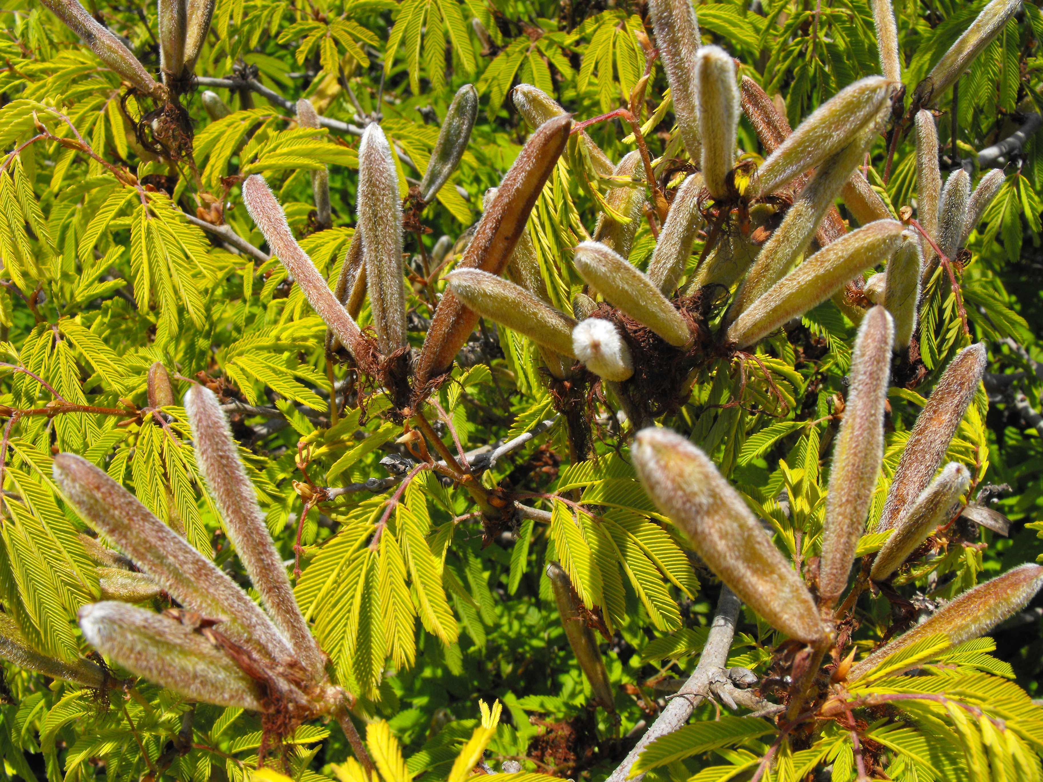 Calliandra tweediei fruits at the Water Conservation Garden at Cuyamaca College in El Cajon, California, USA.